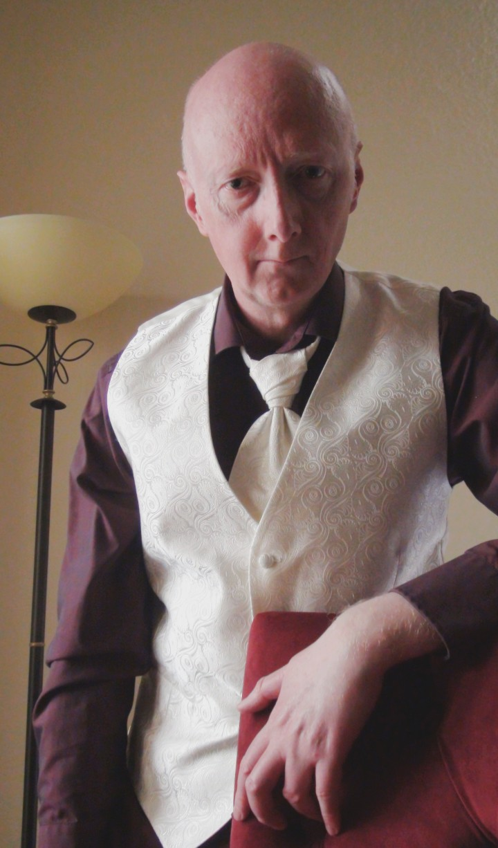 James Peace at his home in Wiesbaden